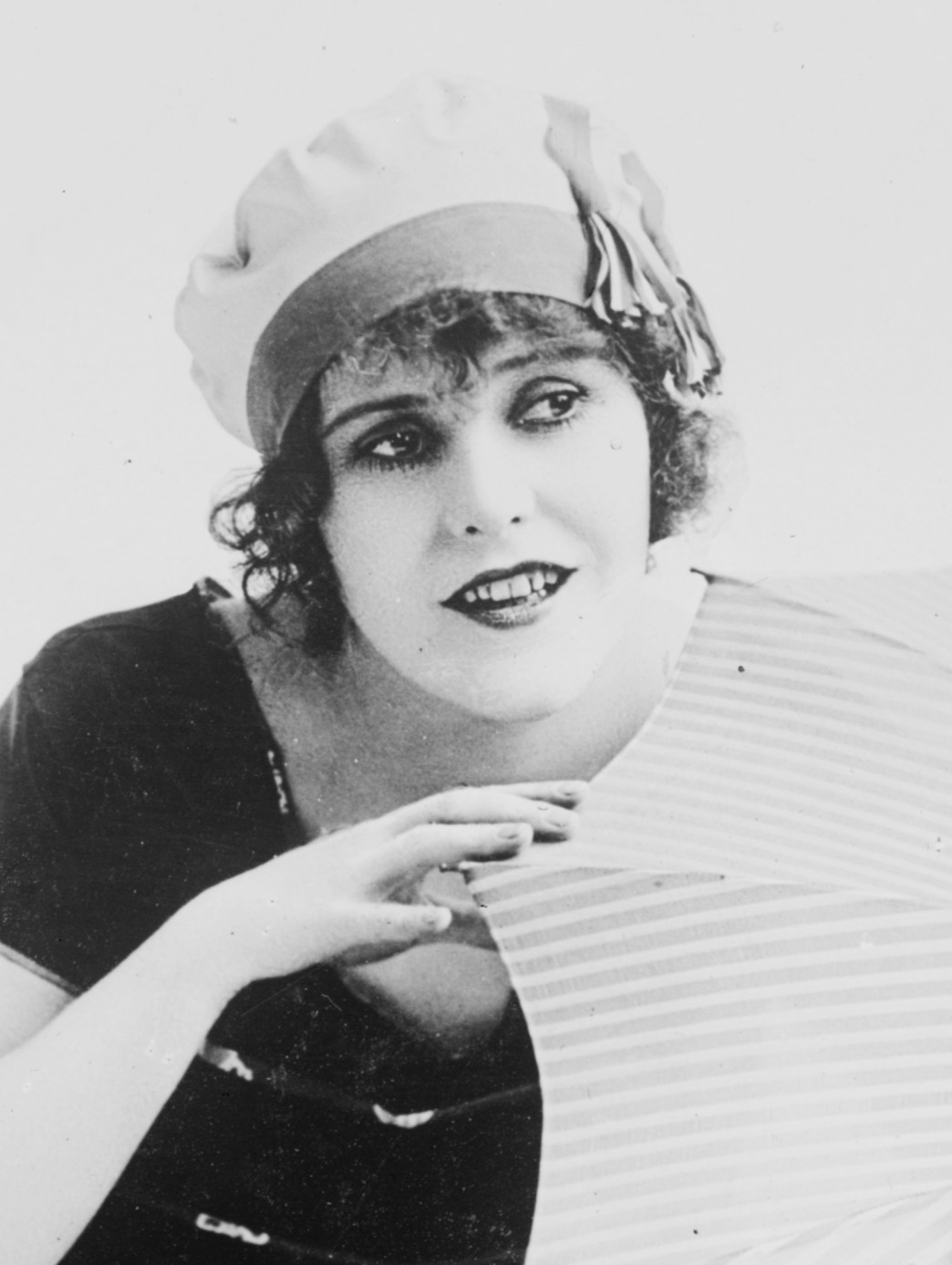 Actress Ruth Roland